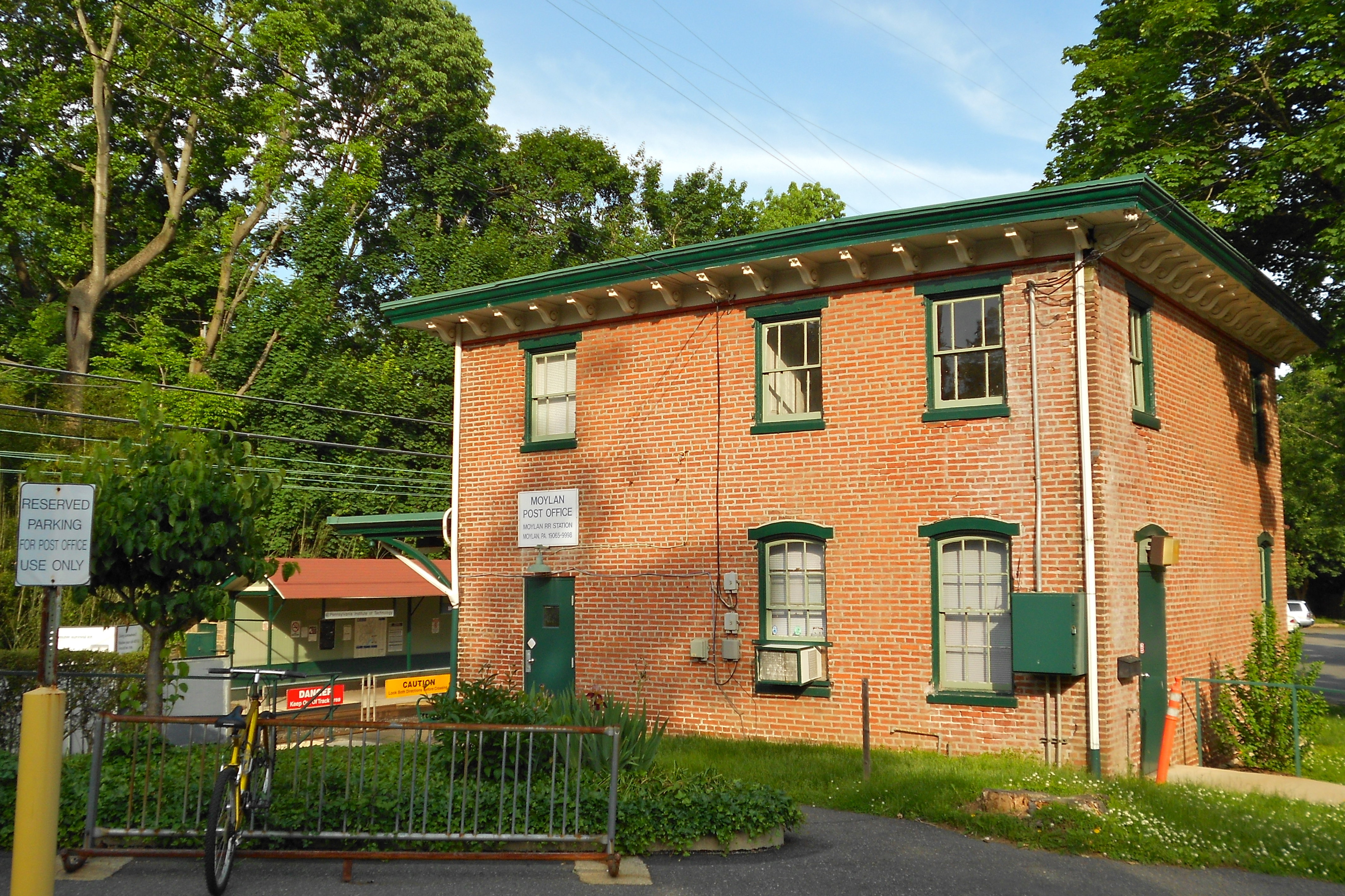 Moylan-Rose Valley SEPTA station near Media, Pennsylvania. Italianate architecture.